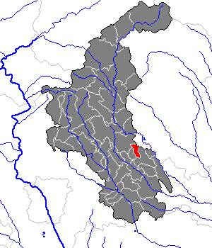 This map shows the area of the Gemeinde (municipality) Kulm bei Weiz in the Bezirk (district) Weiz, Styria, Austria.